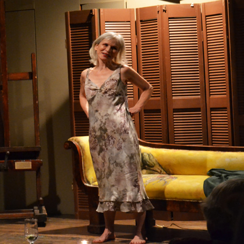 Canadian actress Nicky Guadagni as Zelda Fitzgerald in Hooked: The Play in 2013. Photo Credit: Christine MacLean (producer of Hooked)